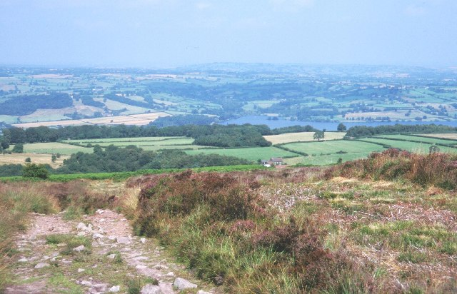 On Beacon Batch. The view from near the highest point in the Mendips. The Mendip hills are mostly made of limestone, but here older sandstones survive with a decrease in fertility, hence the moorland. The view north is dominated by Blagdon Lake which supplies Bristol.